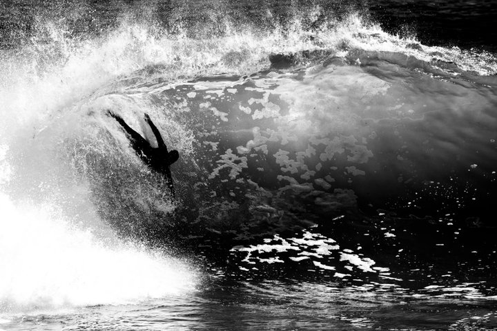 Proper Technique for Bodysurfing